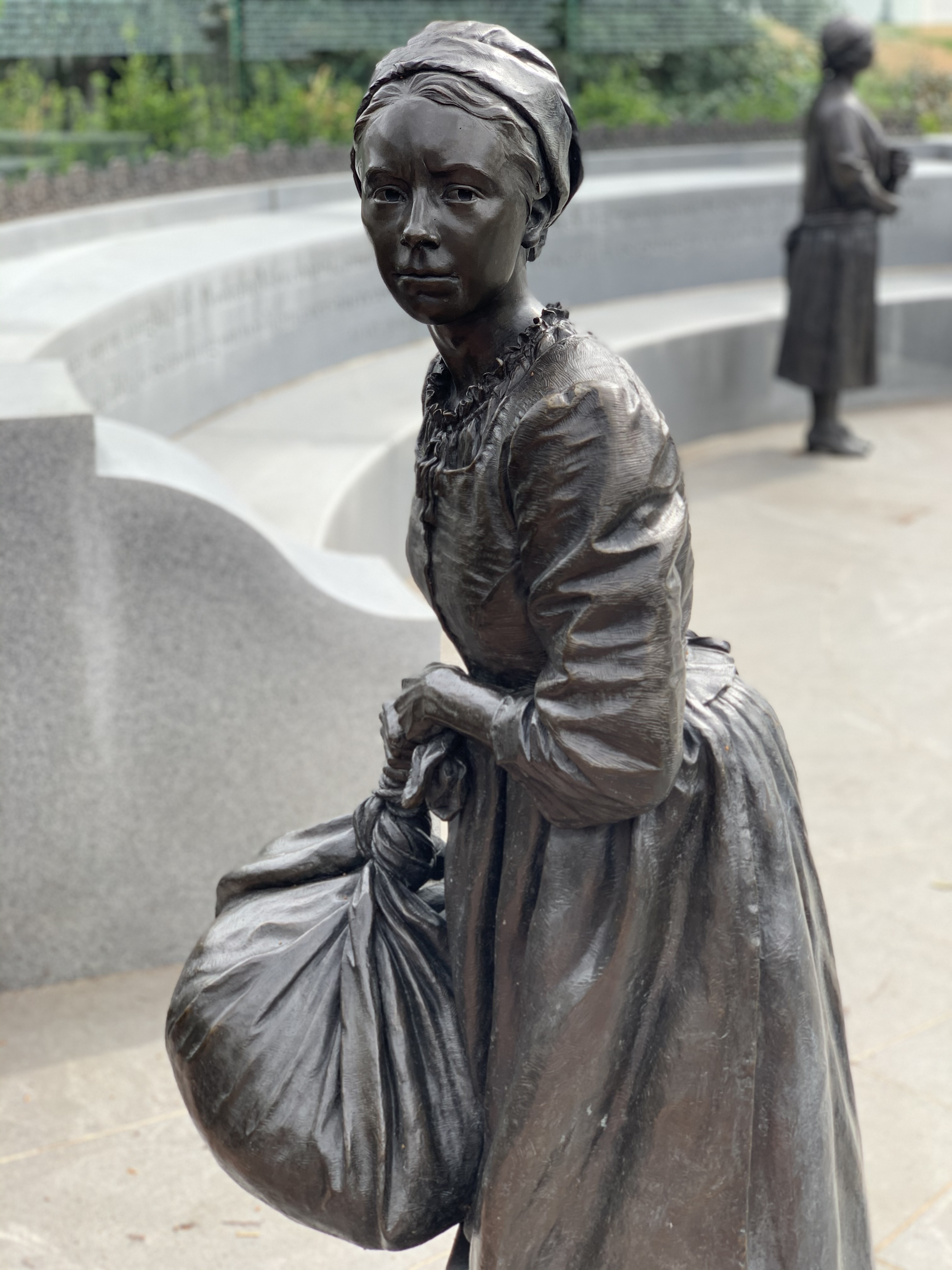 Bronze statue of Anne Burras Laydon at the Virginia Women's Monument.